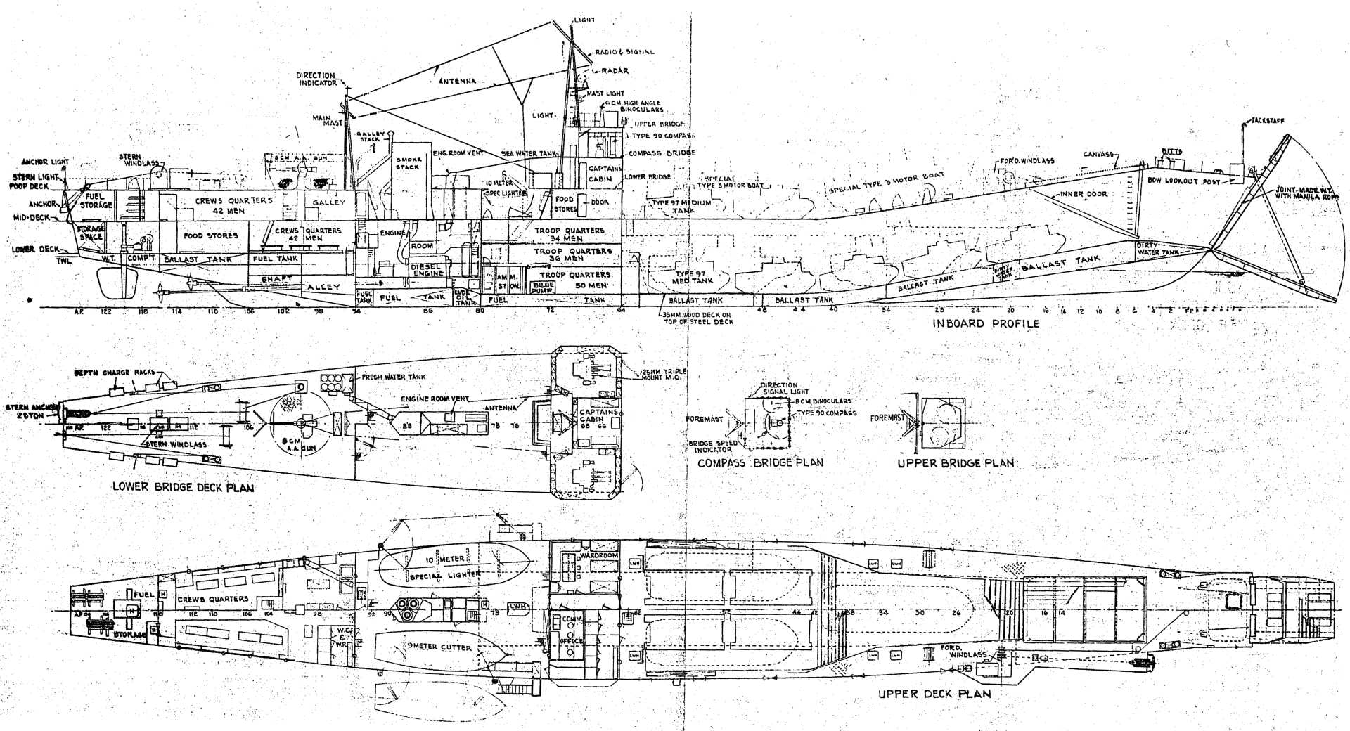 Schema of diesel-engine version (No.101 class) of the 2nd class transporter of the Imperial Japanese Navy according to Reports of the U. S. Naval Technical Mission to Japan 1945 – 1946